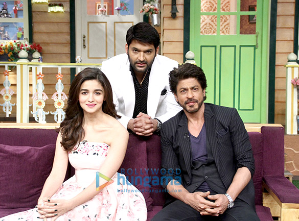 Shah Rukh Khan & Alia Bhatt on The Kapil Sharma Show